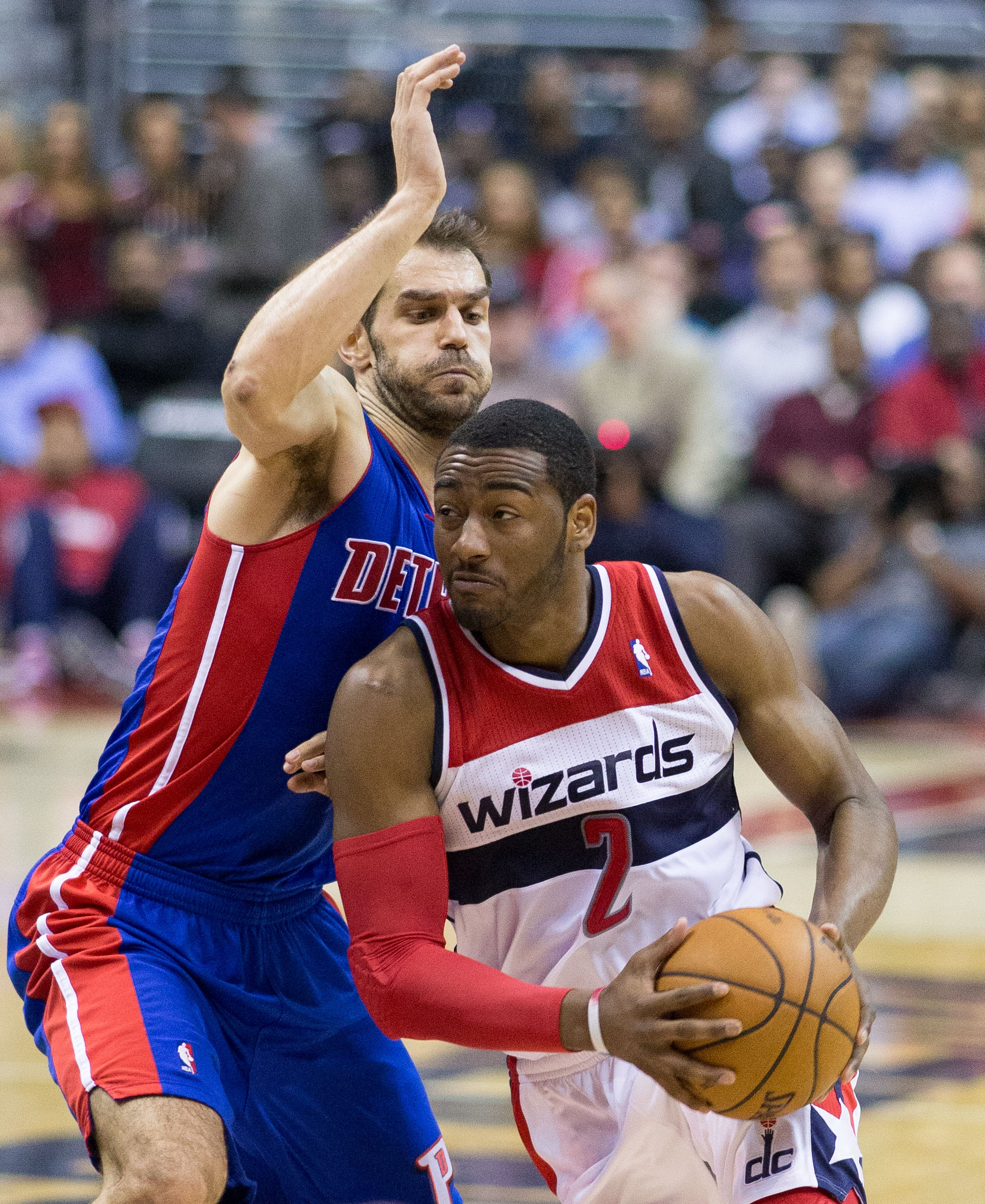 Detroit Pistons at Washington Wizards Feb 27, 2013